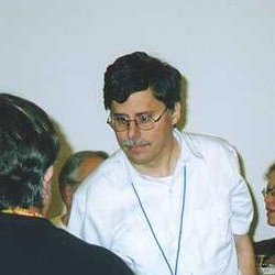 DC Comics President Paul Levitz at Comic-Con International in 2002